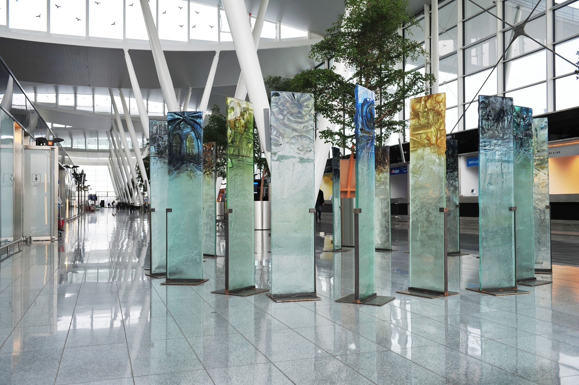 Inspired by the artist’s experience of Stonehenge in England and after receiving a proposal to organize an exhibition in the series “Wrocław Airport- we support High-Flying Art”, a structure of 21 glass pieces was created and set up in a circle depicting architectural motifs from the artist’s various travels. The exhibition was entitled: GLASSHENGE. The patronage of the exhibit was taken over by the President of Wrocław, Rafał Dutkiewicz. Sponsors included MPWiK Wrocław and The Karkonosze Museum in Jelenia Góra.